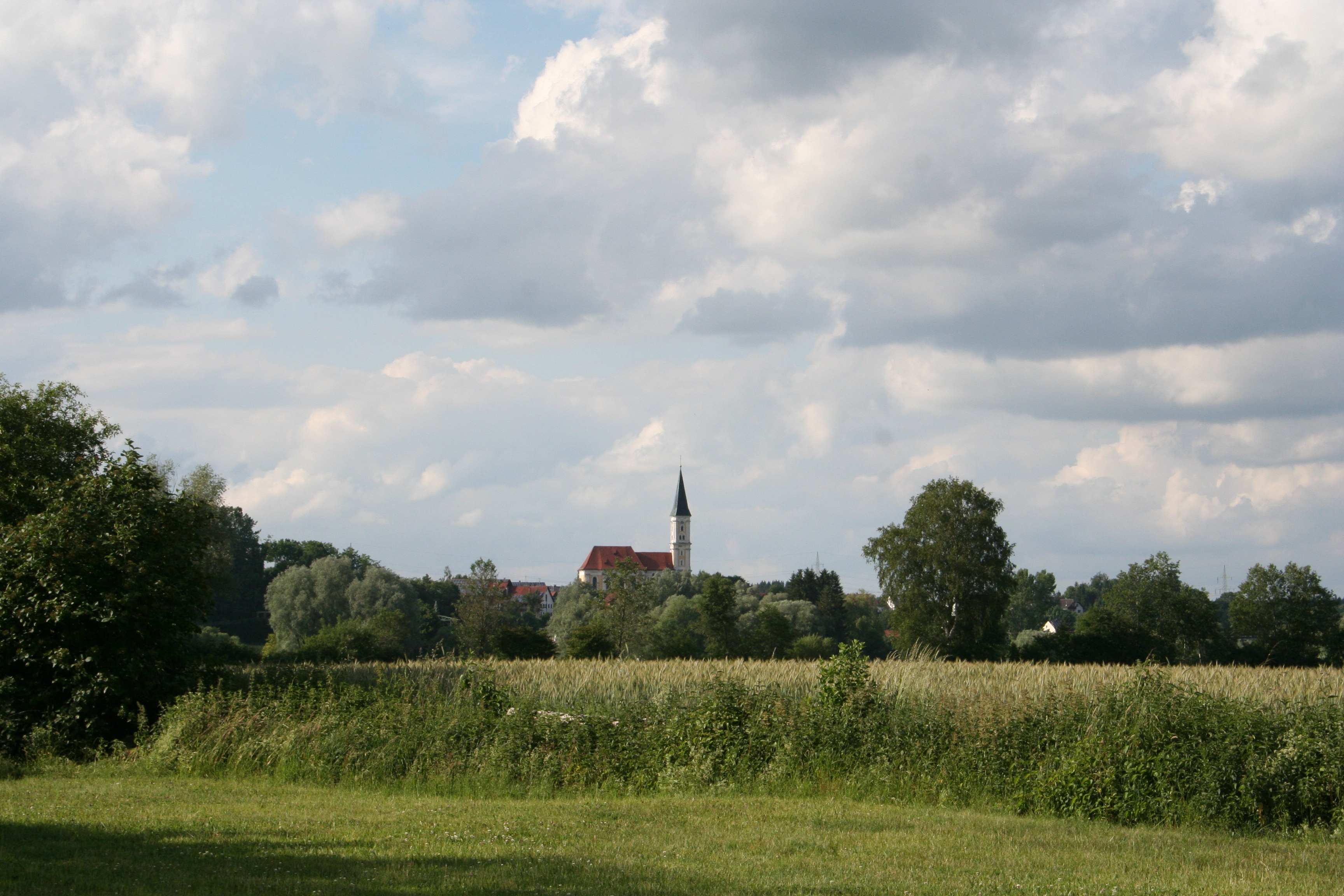 Breitenthal; view from the Oberrieder Weiher